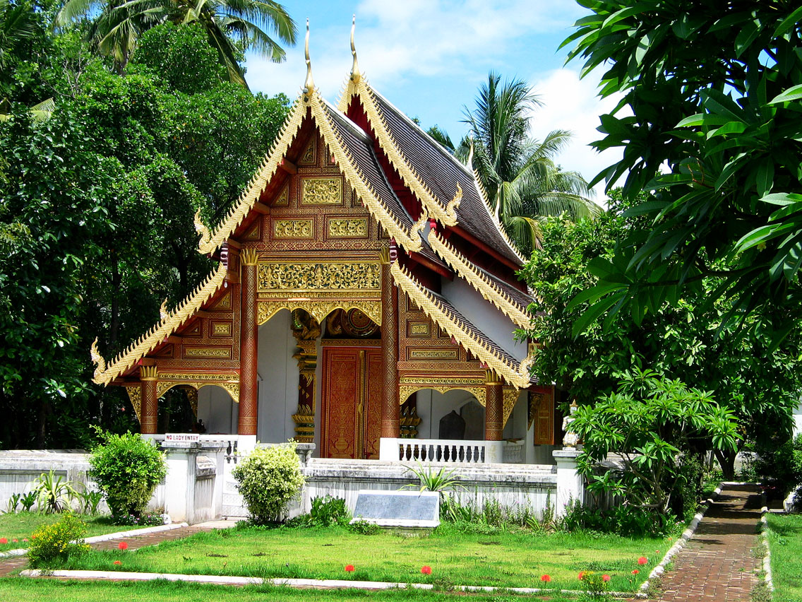 Ubosot of Wat Chiang Man, Chiang Mai, northern Thailand